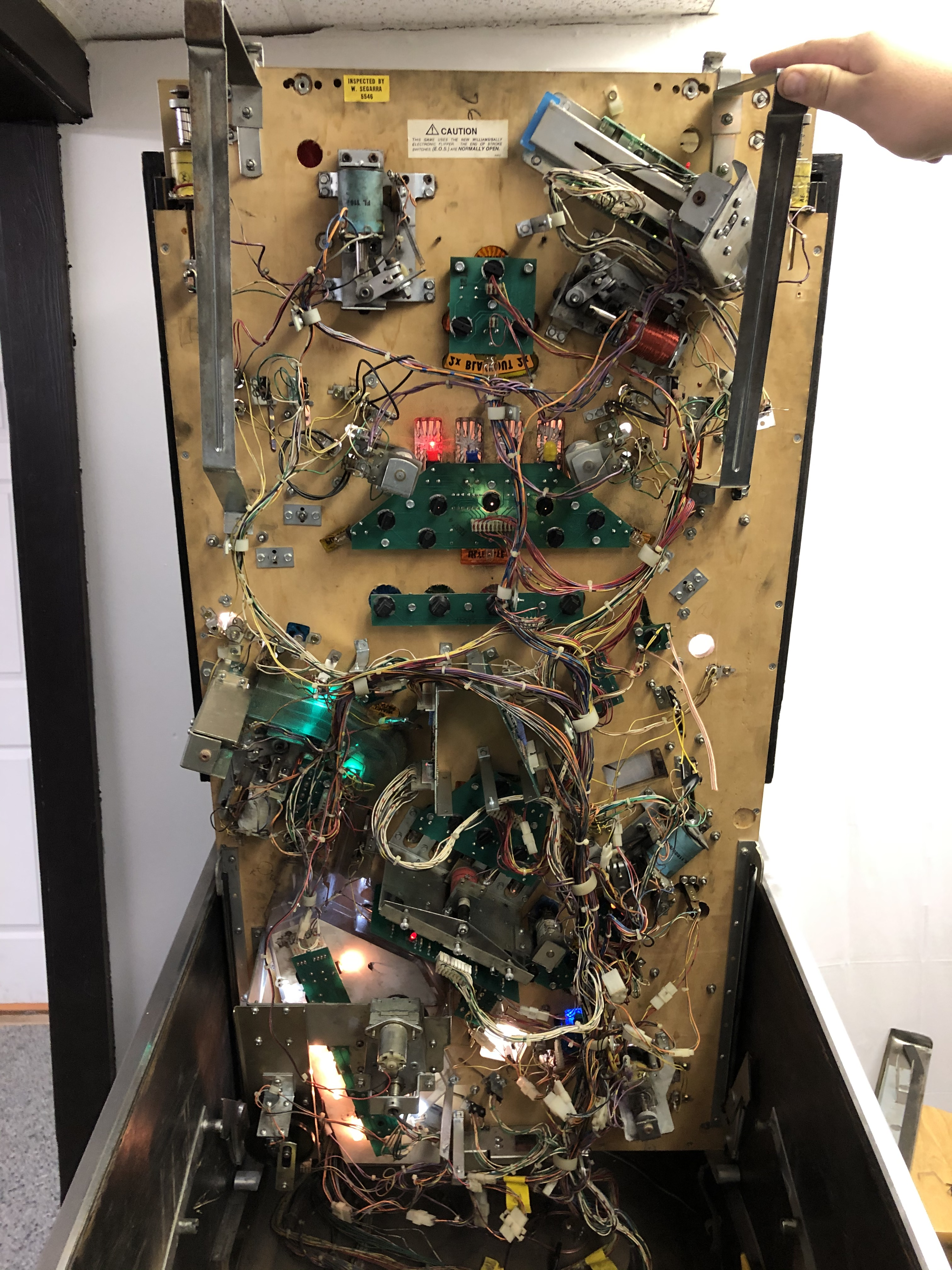 The underside of a Judge Dredd Pinball machine, exposing it's internals, including solenoids and other components.